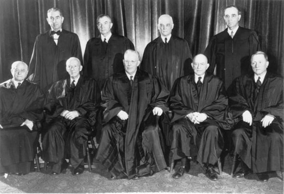 The members of the Warren Court, taken in 1953. Back row (left to right): Tom Clark, Robert H. Jackson, Harold Burton, and Sherman Minton. Front row (left to right): Felix Frankfurter, Hugo Black, Chief Justice Earl Warren, Stanley Reed, and William O. Douglas.